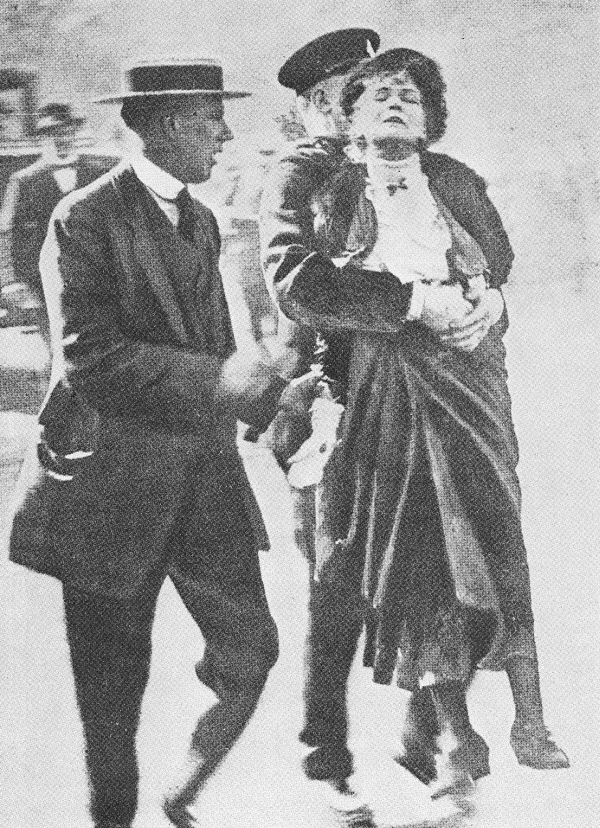 Emmeline Pankhurst being arrested at King's Gate in May 1914